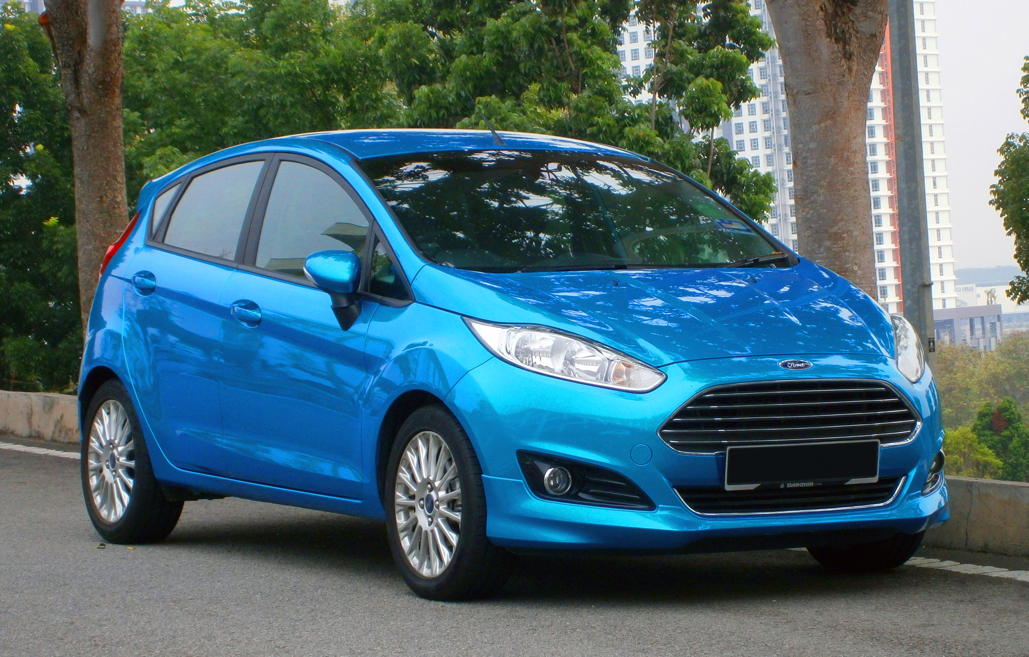 2014 Ford Fiesta 1.5L Sport in Cyberjaya, Malaysia.Colour : Celestial BlueDesigned in Europe & the United States + , Assembled in Thailand